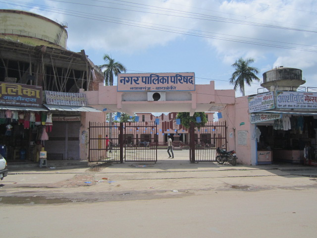 View of building of Nagar Parishad Nawabganj, Barabanki. Picture taken by Faiz Haider, using LG KP119 (Dynamite) phone. Photo was taken on: Tuesday, April 07, 2009, 11:12:14 AM